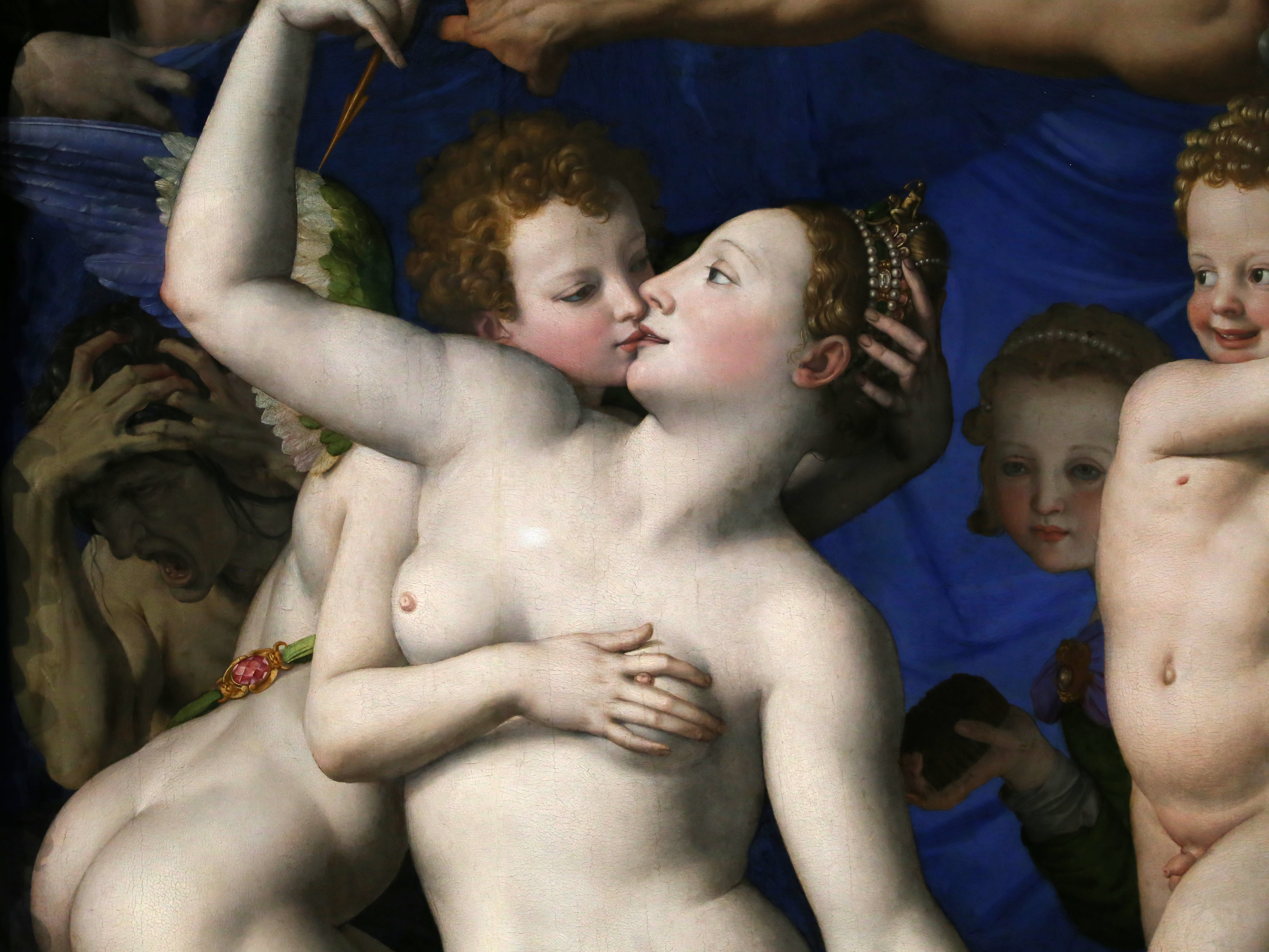 Paintings by Agnolo Bronzino in the National Gallery, London